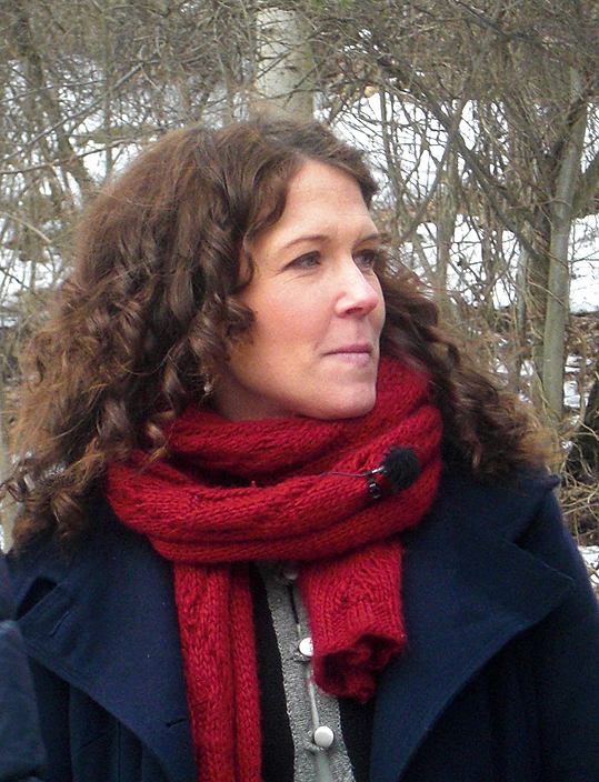 Anna Lindman Barsk, born 1972, is the anchorman in the Swedish television programme Från Sverige till himlen (i.e. "From Sweden To Heaven") during 2011.